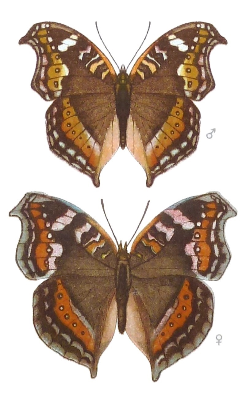 SeitzFaunaAfricanaXIIITaf51 Precis actia, male and female